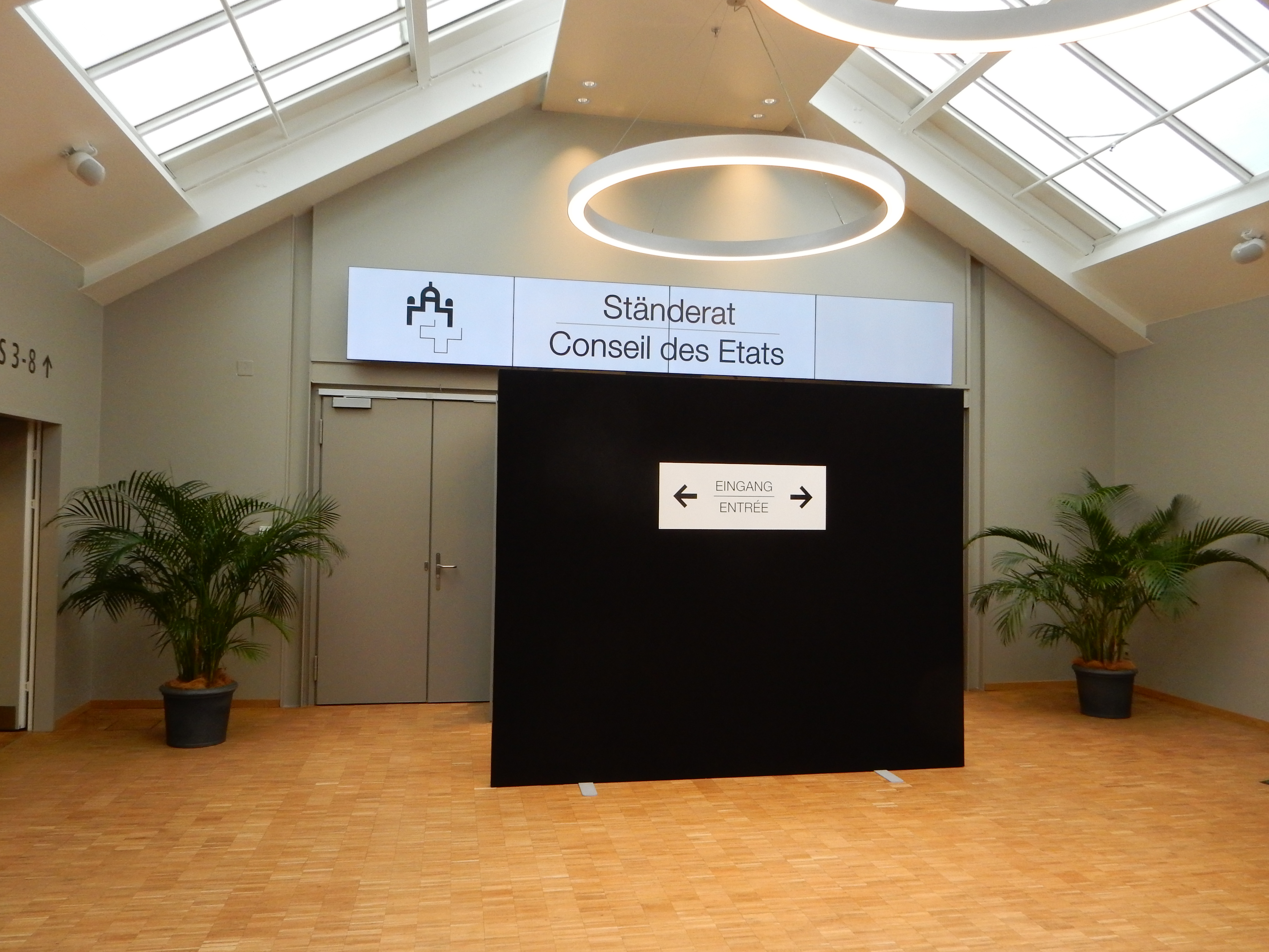 Sessions of the Swiss Federal Assembly during the COVID-19 pandemic